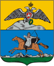 Caucasus oblast (Russian empire), coat of arms (1809)